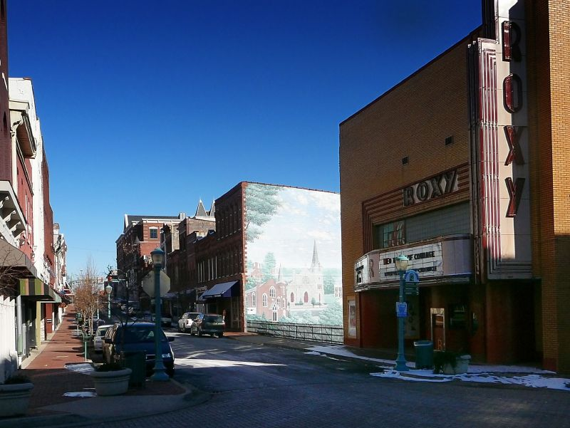 Clarksville, TN. The Roxy in Clarksville's historic downtown section.